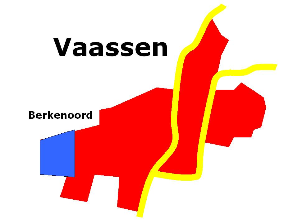 Location map of Berkenoord in Vaassen.